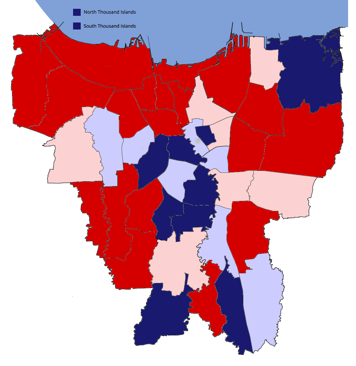 Map of the district results of the 2012 Jakarta gubernatorial election. Districts won by Joko Widodo are in red (■), while the ones won by Fauzi Bowo are in blue (■). Lighter shades (■or■) indicate a winning majority of less than 5%.